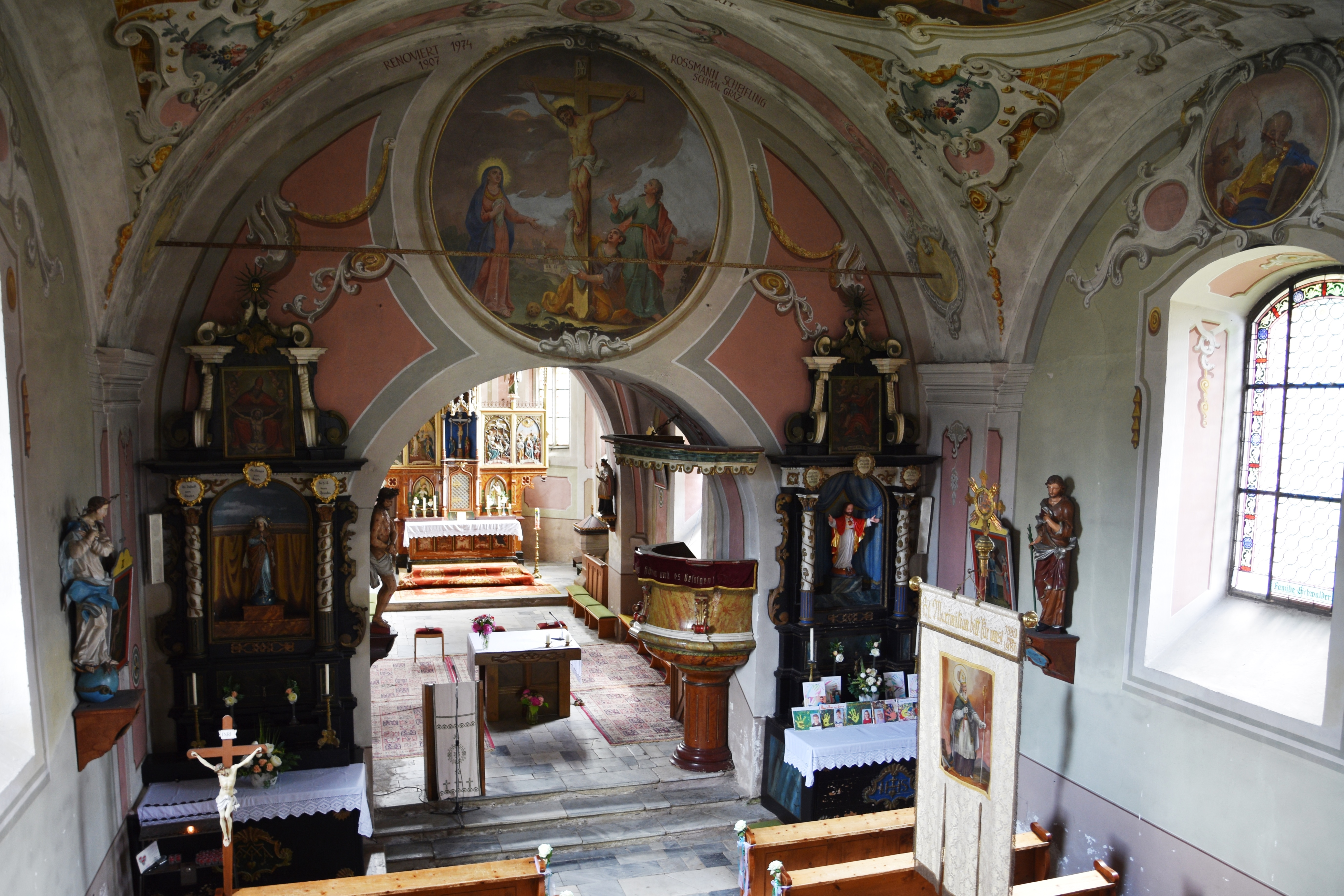 Church Pfarrkirche Niederwölz Interior